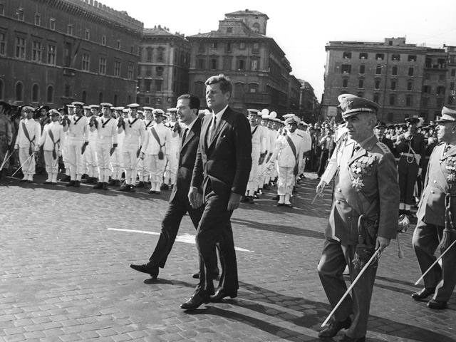 U.S. President John F. Kennedy together with Mr. Giulio Andreotti (then Minister of Defence of Italy) pays tribute to the shrine of the Unknown Soldier in Rome during his 1963 State visit to Italy.